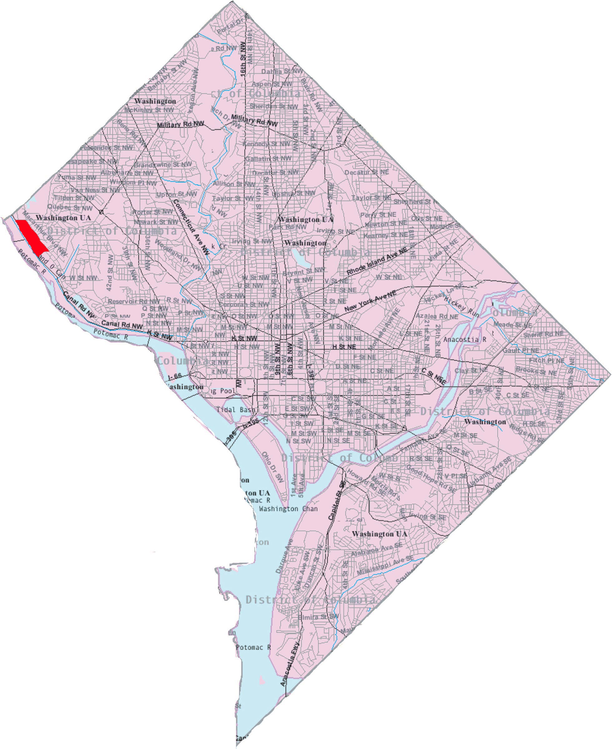 This image is a modified version of a self-generated reference map from the U.S. Census Bureau's American Factfinder at by Wikipedia user Msclguru.